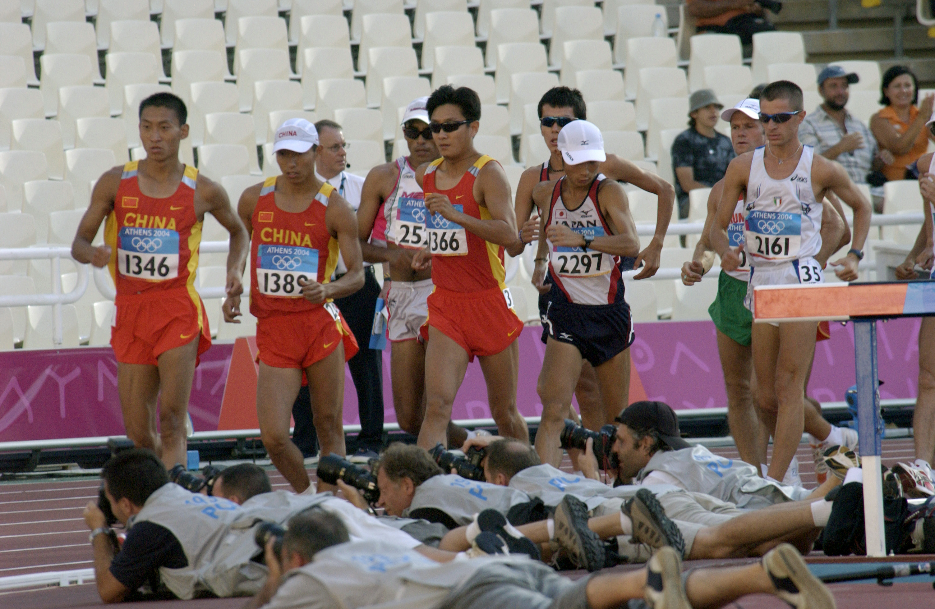 U.S. Army Sgt. John Nunn and U.S. Air Force Capt. Kevin Eastler, along with other competitors, compete in the 20K Racewalk competition during the 2004 Olympics at the Olympic Stadium in Athens, Greece.